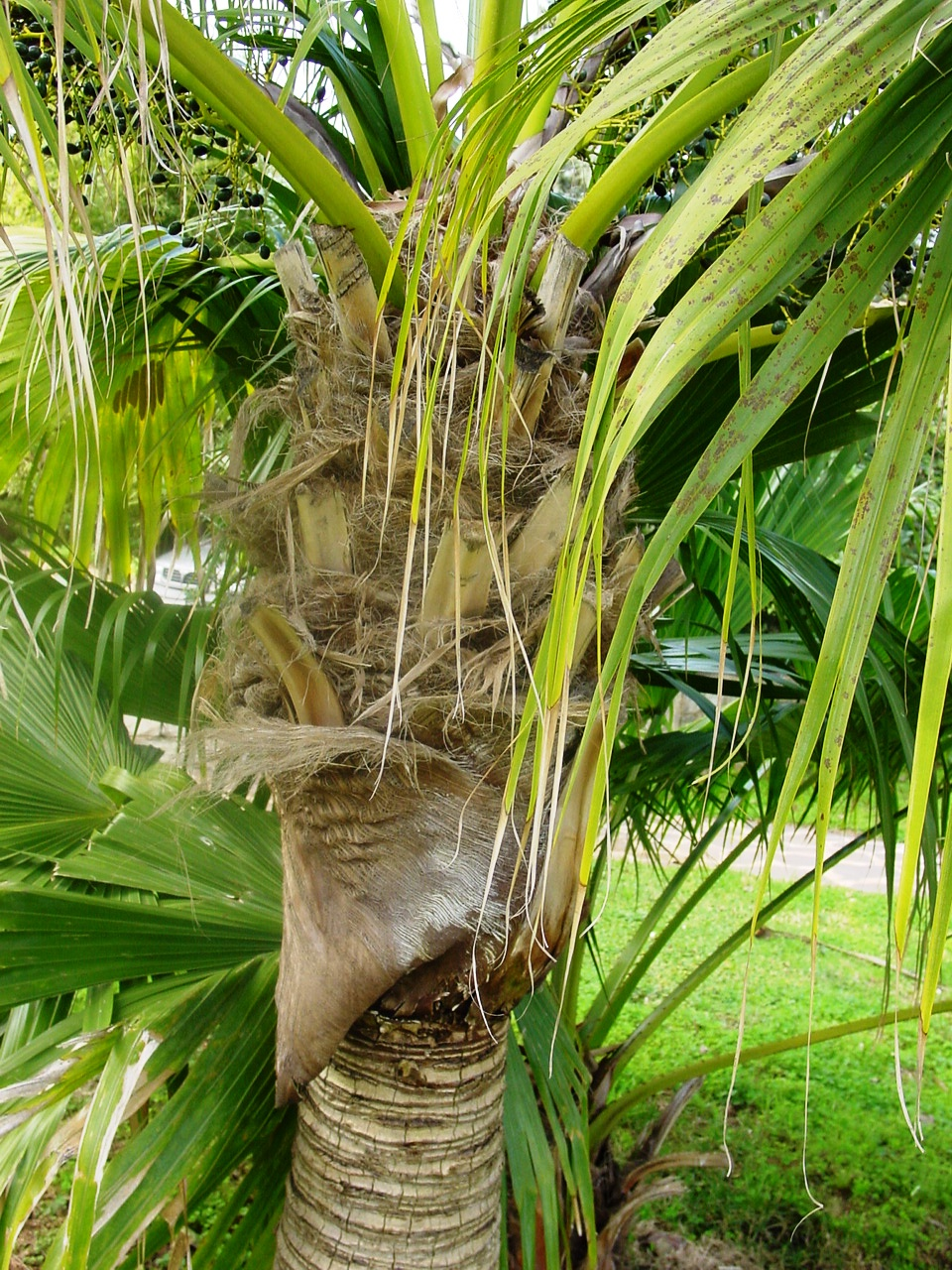 Oggetto Livistona chinensis (private collection, Palermo) Uploaded by Esculapio